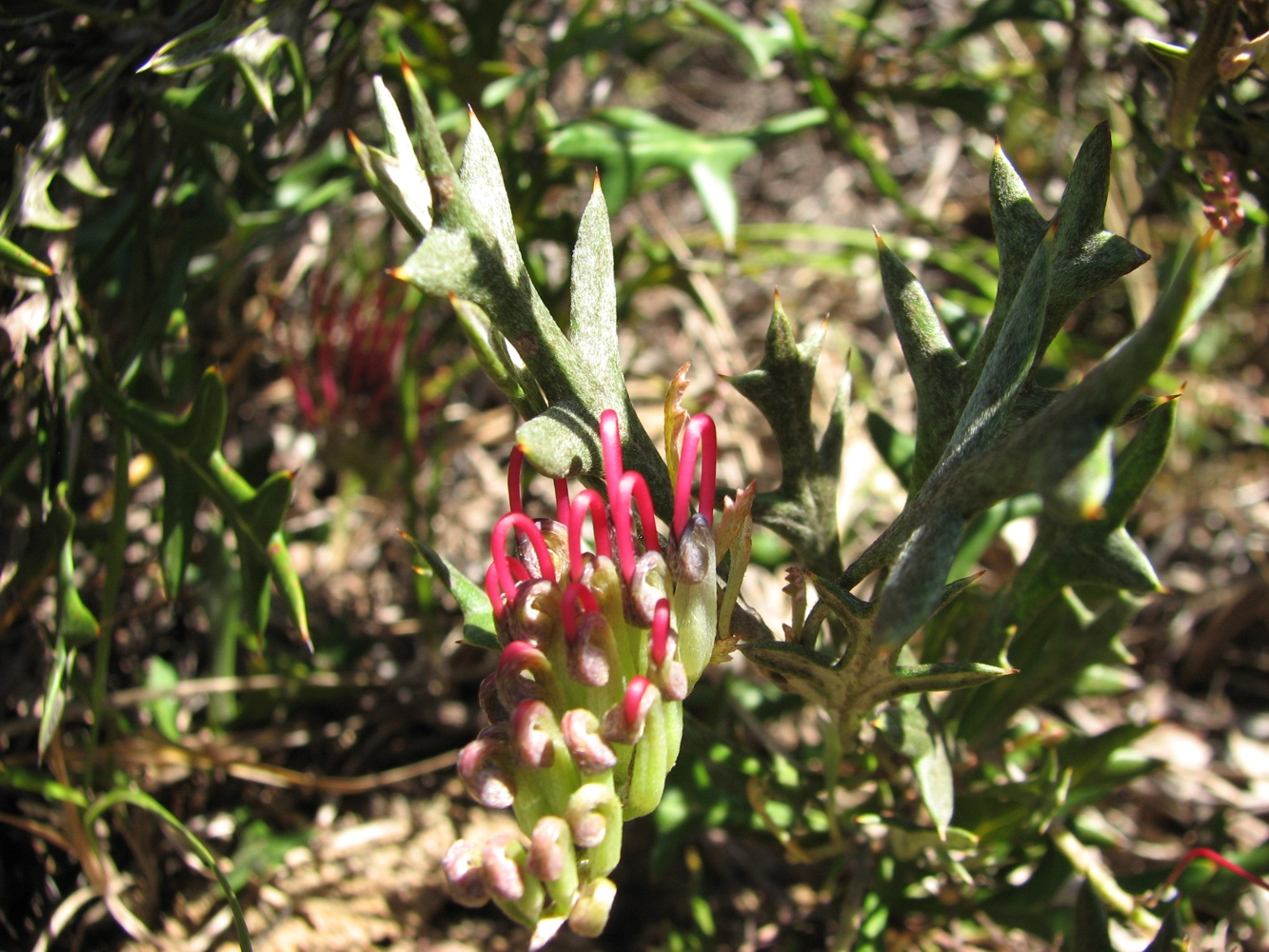 Grevillea ilicifolia var. lobata (cultivated, labelled) Points Reserve, Coleraine, Victoria, Australia